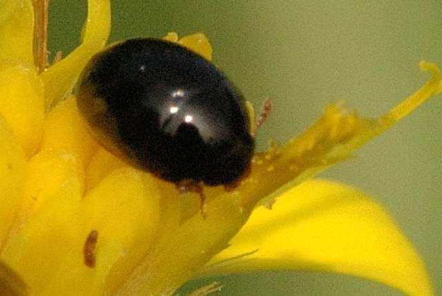 Olibrus flavicornis from Commanster, Belgian High Ardennes .